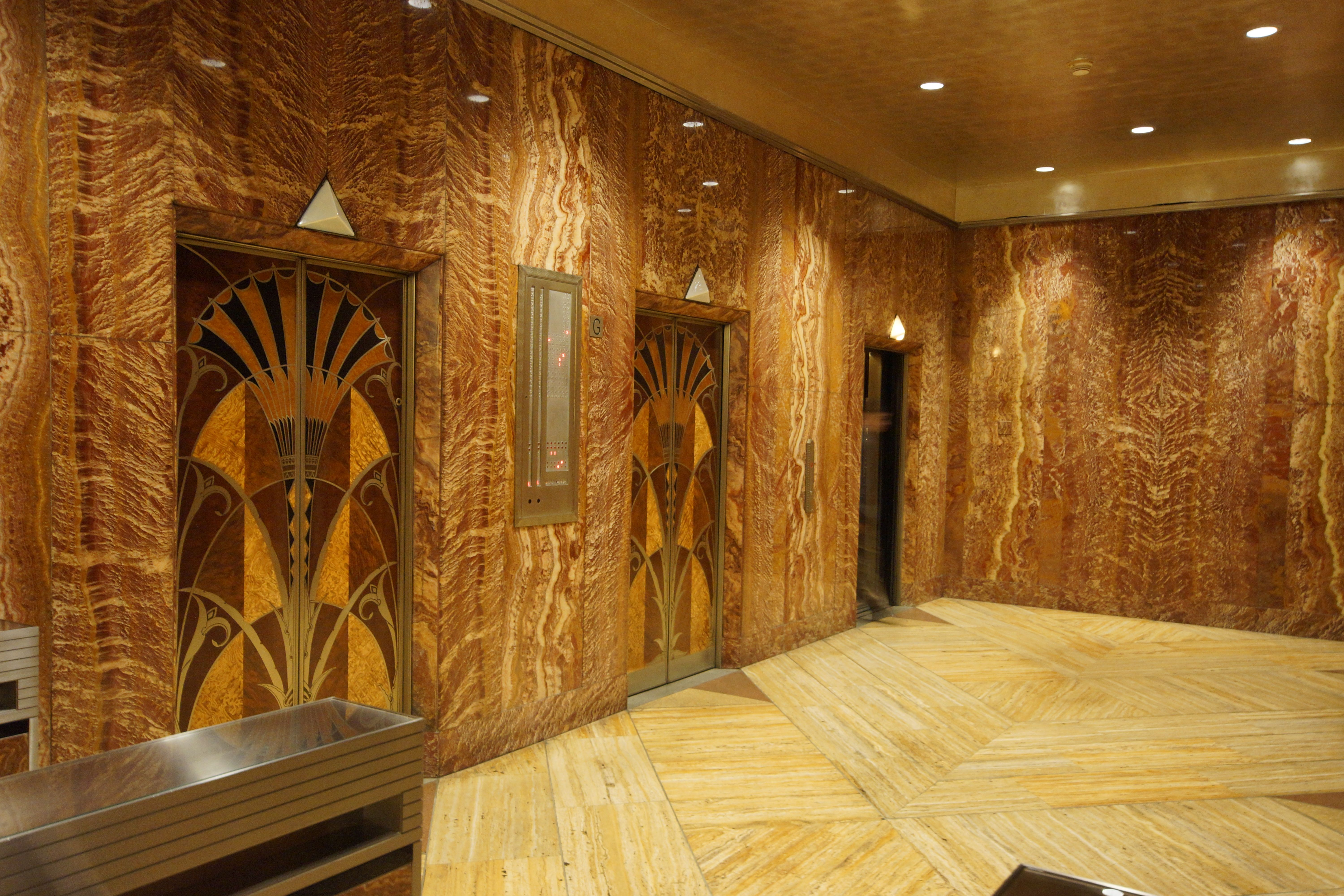 In and around the Chrysler Building